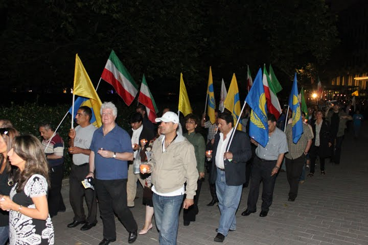 Image of Gathering